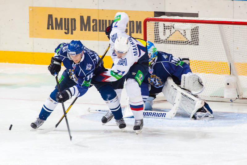 HC Metallurg Magnitogorsk forward Evgeni Malkin, Amur Khabarovsk defenceman Alexander Loginov and goalie Alexei Murygin during KHL-game on October 8, 2012.